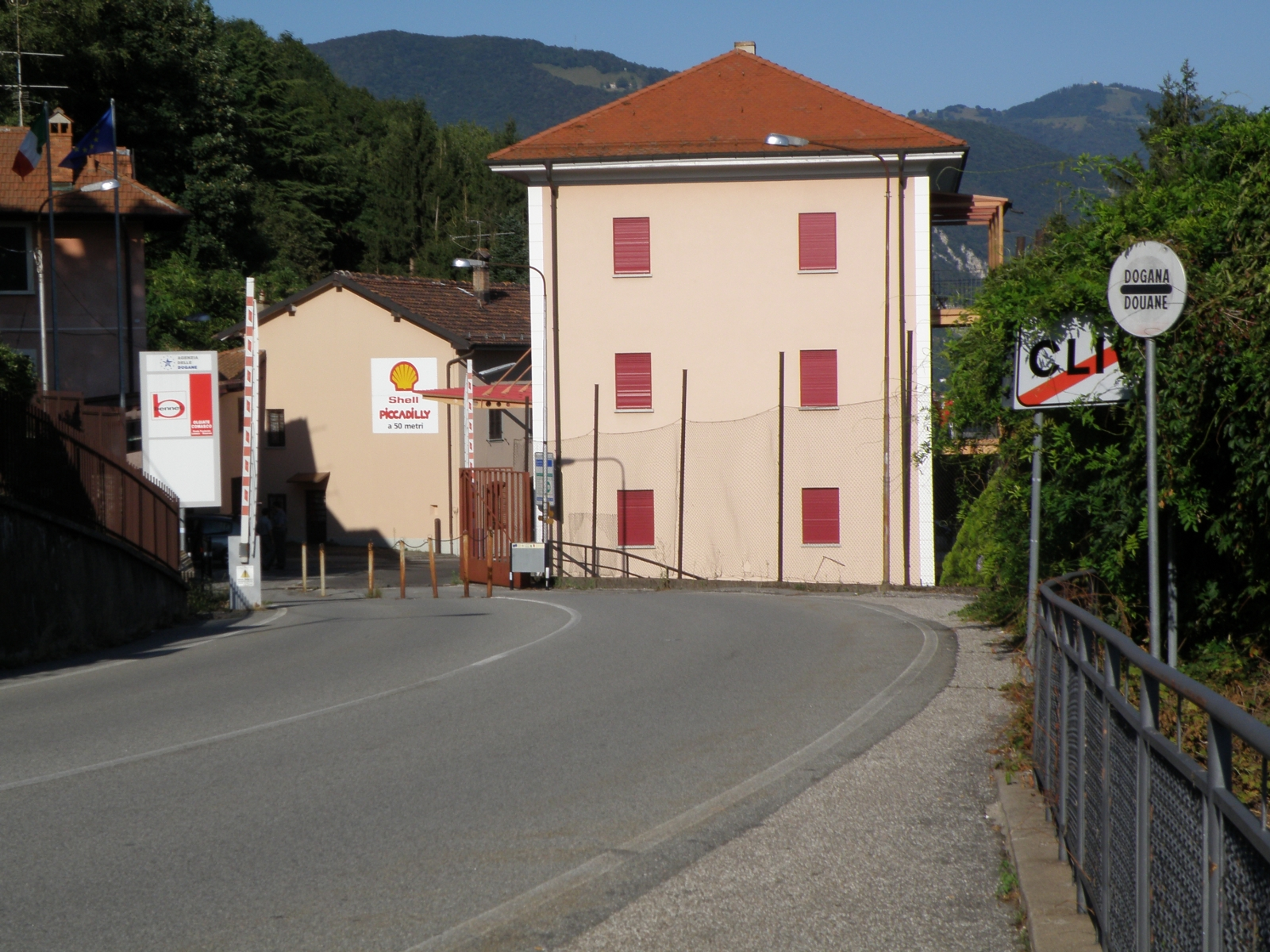 International border between Italy and Switzerland. Clivio (Varese)